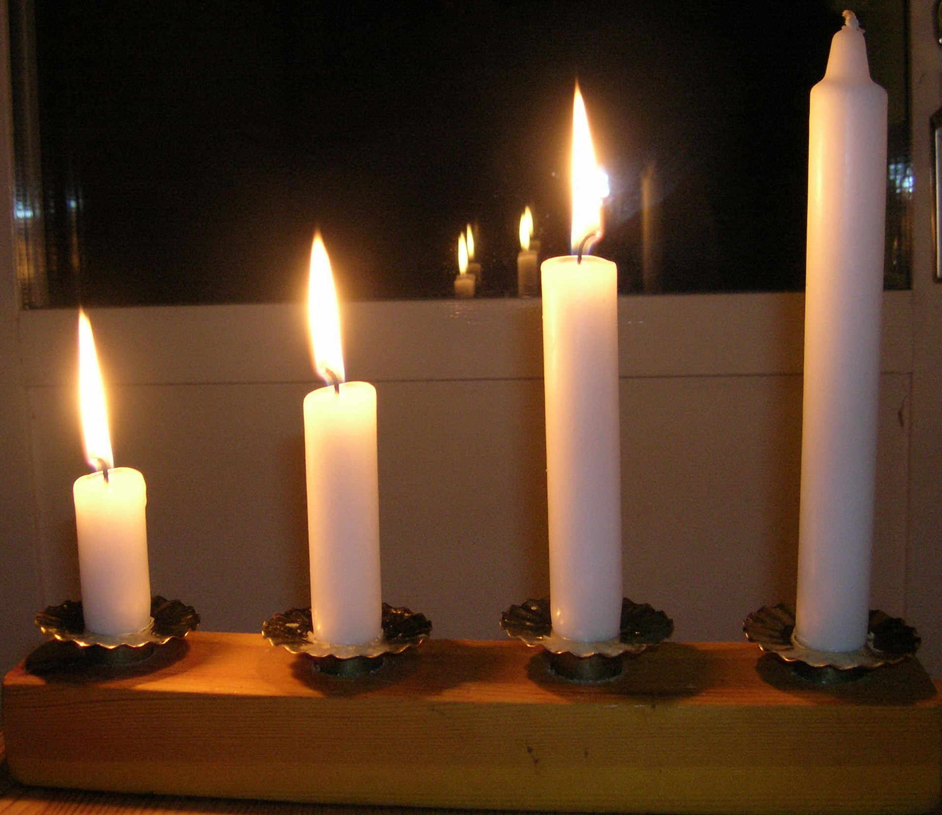 Three candles lit for the three first Sundays of advent.